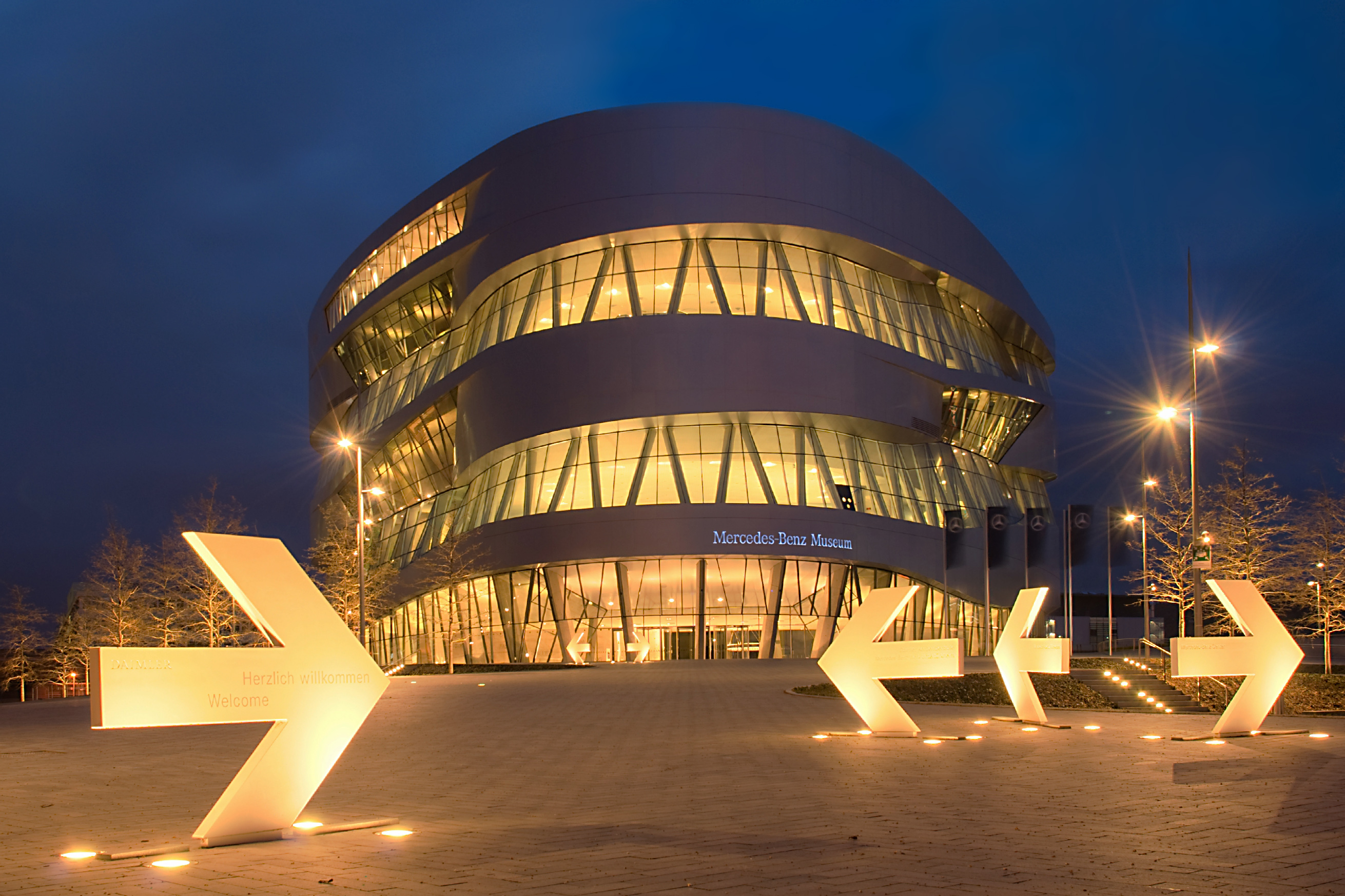 Mercedes-Benz Museum, Stuttgart, Germany (HDR image, tone-mapped with qtpfsgui)